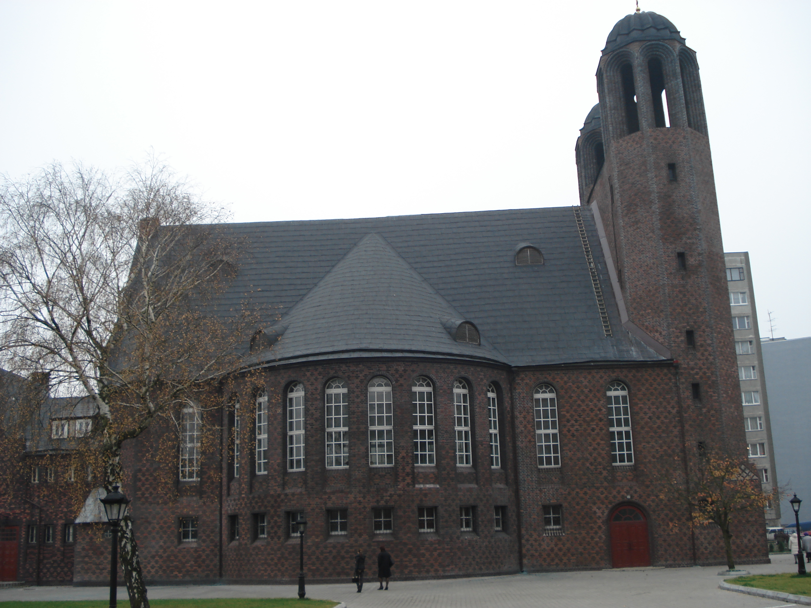 Orthodox Krestovosdvishenski Cathedral in Kaliningrad, form. Lutheran Kreuzkirche